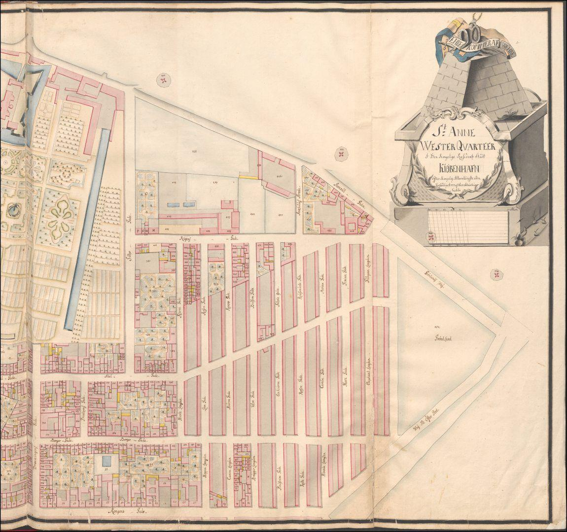 Sankt Annæ vester kvarter